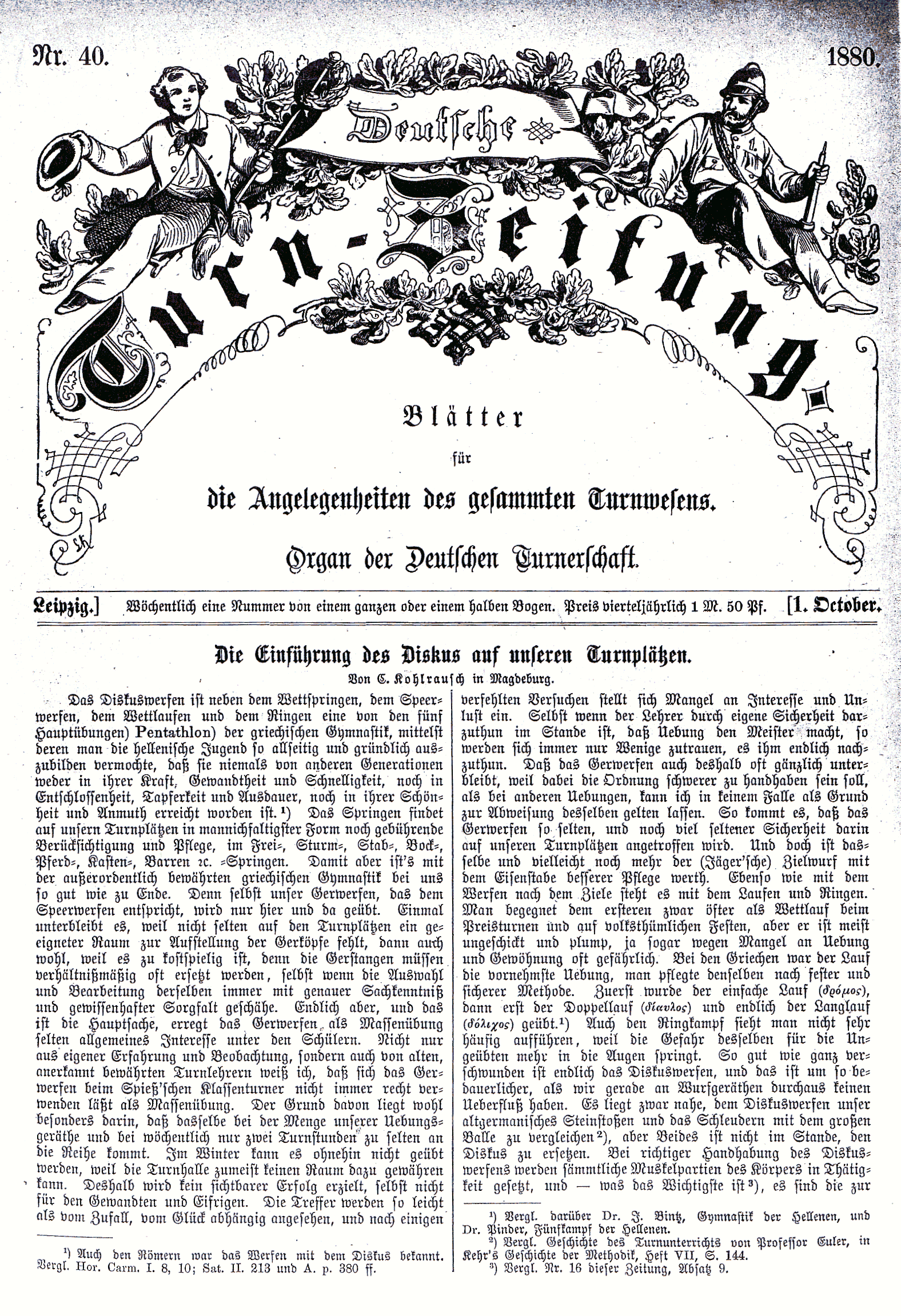 Scan of a copy of the Turnzeitung, No. 40 - 1880, with the article for the introduction of the discus in Germany